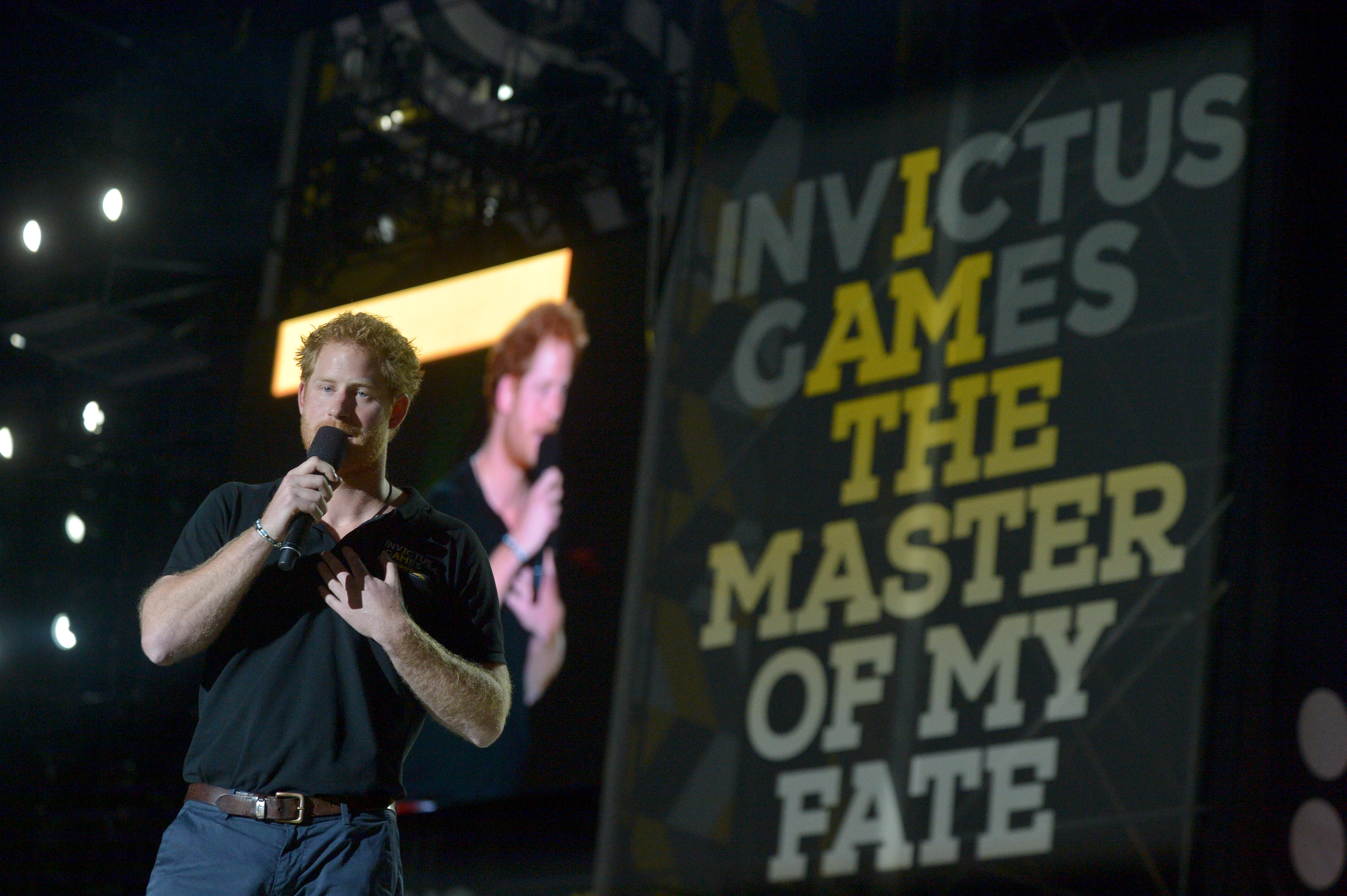 Prince Harry gives a final speech during the closing ceremonies of the 2016 Invictus Games at the ESPN Wide World of Sports Complex, Orlando, Fla., May 12, 2016. The Invictus Games are an adaptive sports competition composed of 14 nations, over 500 military competitors, competing in 10 sporting events May 8-12, 2016. (U.S. Army photo by Staff Sgt. Alex Manne/Released) Unit: 982nd Combat Camera Company Airborne